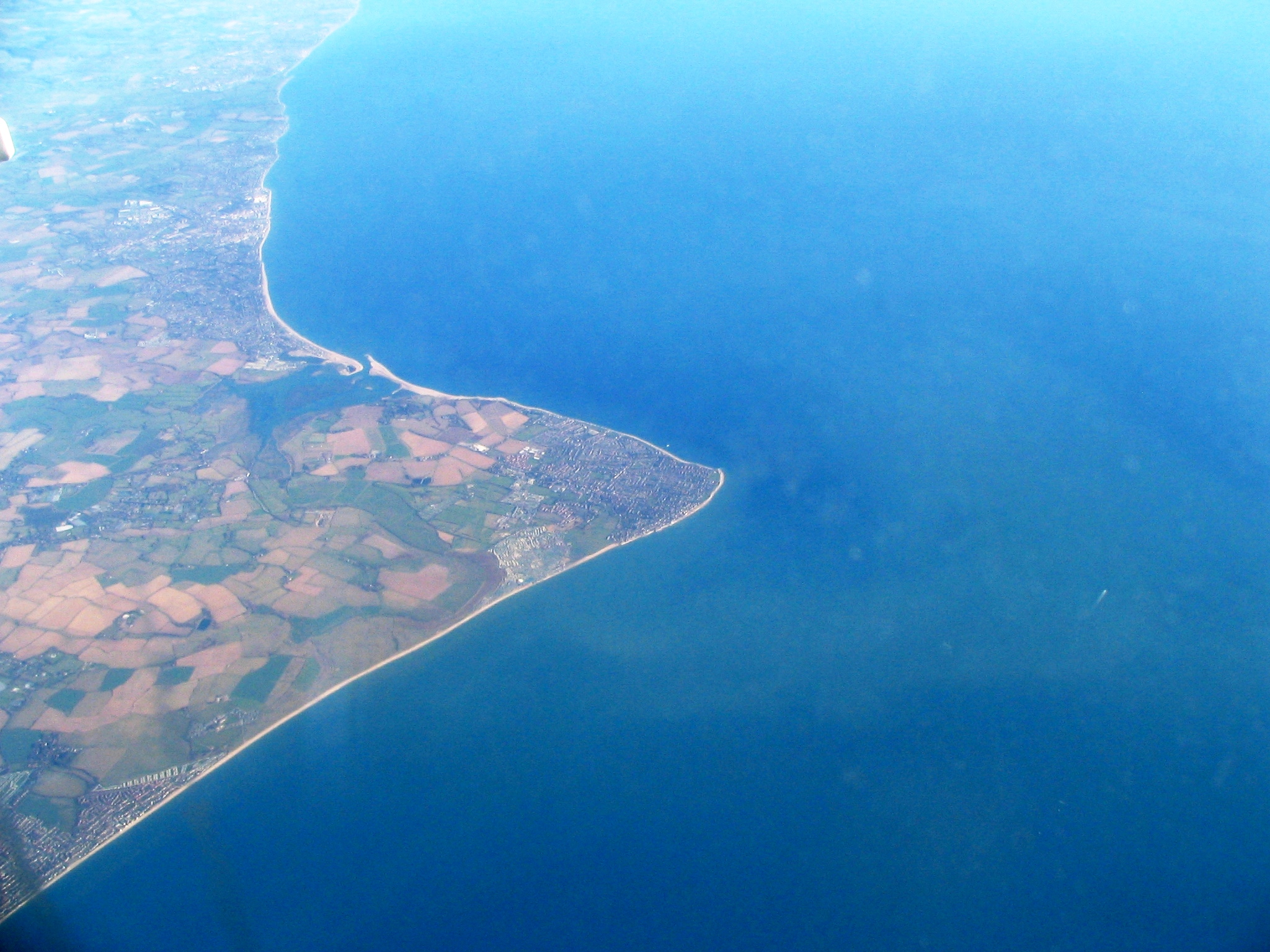 Selsey view from flight